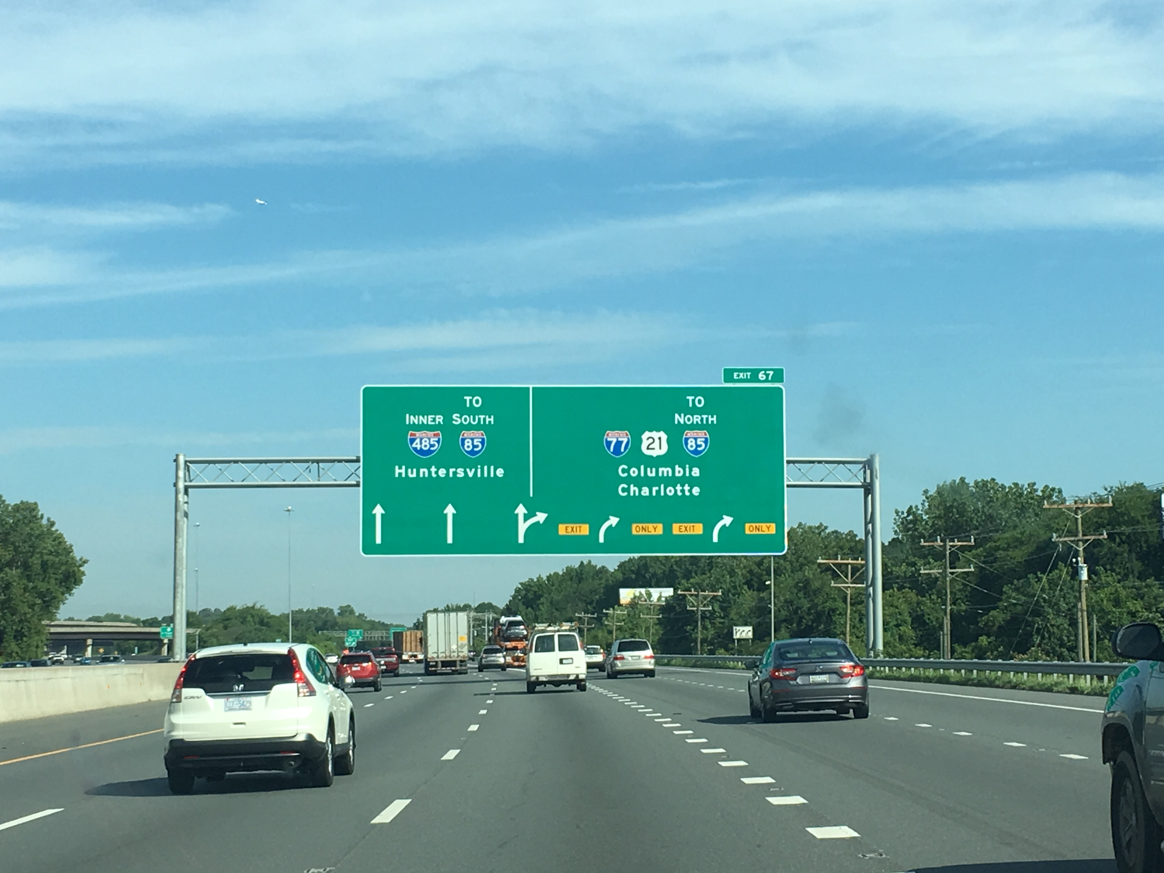 Northbound Interstate 485 at the interchange with Interstate 77 (exit 67) in Charlotte, North Carolina